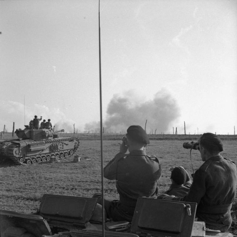 The British Army in North-west Europe 1944-45 Churchill tank crews of 34th Tank Brigade watch the RAF bombing the defences of Le Havre, 10 September 1944.